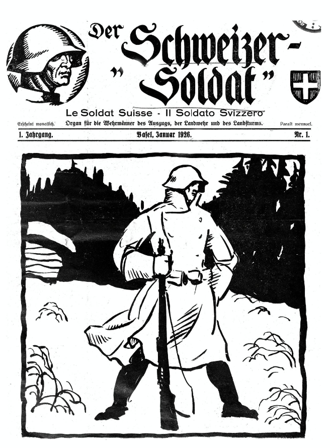 Front cover of the first issue of the Swiss military journal Schweizer Soldat, 1926.